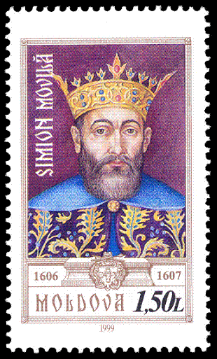 Stamp of Moldova